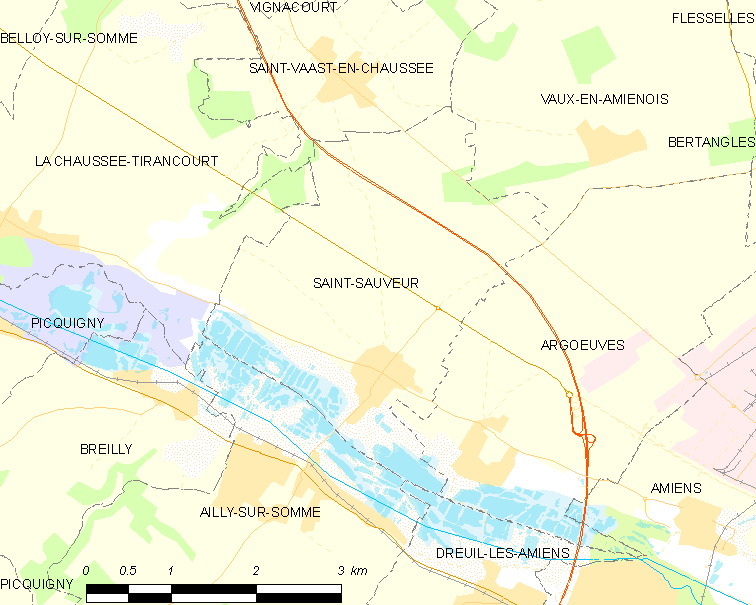 Map of French municipality Saint-Sauveur